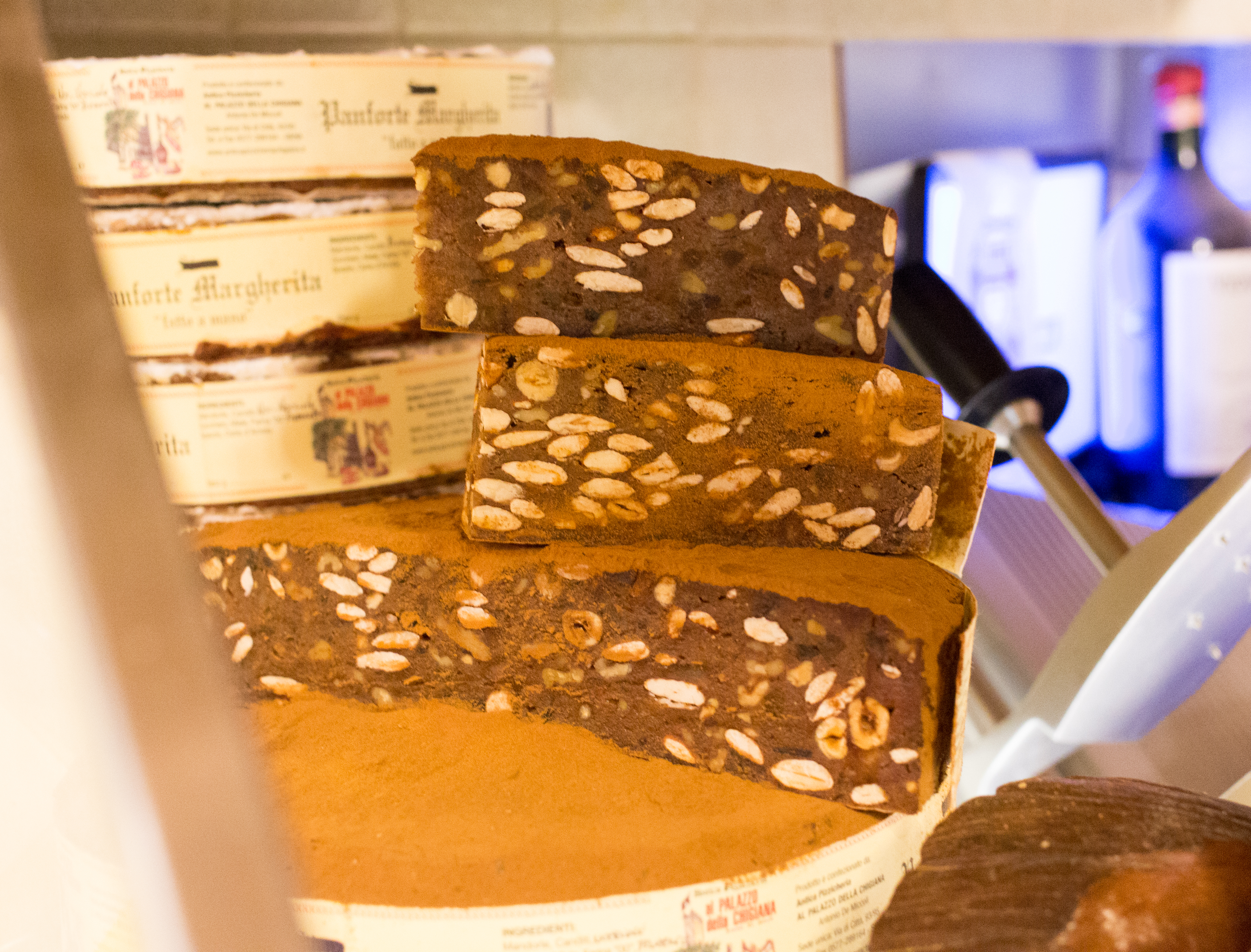 Siena De Miccoli Panforte Panpepato